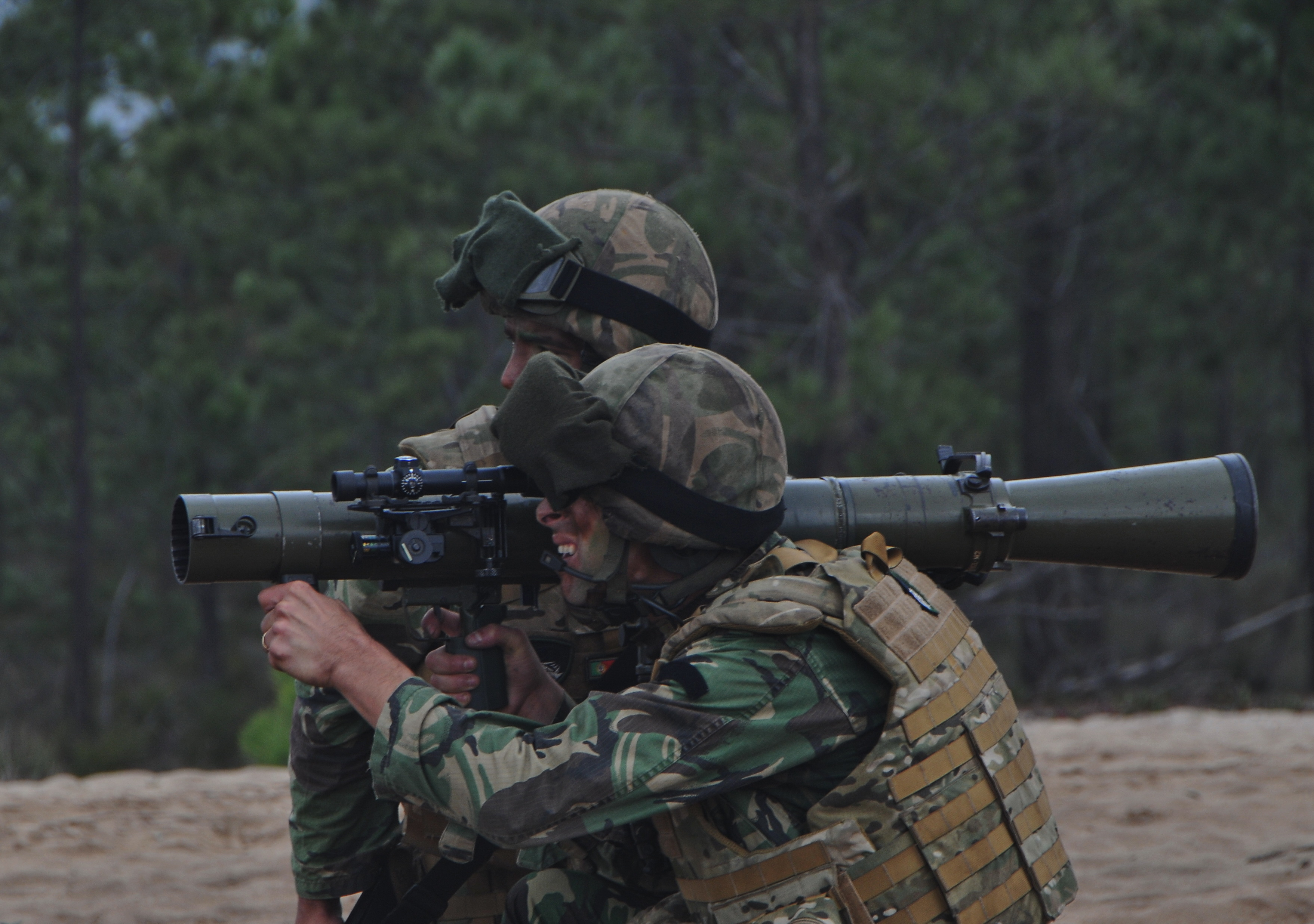 Carl Gustaf team of the Portuguese Marines during a heli assault engage in live fire with 7.62 amunnicion in Pinheiro da Cruz on Trident Juncture 2015. Trident Juncture is a NATO led exercise designed to certify NATO response Forces and develop interoperability among participating NATO and partner nations. NATO photo by Horta Pereira